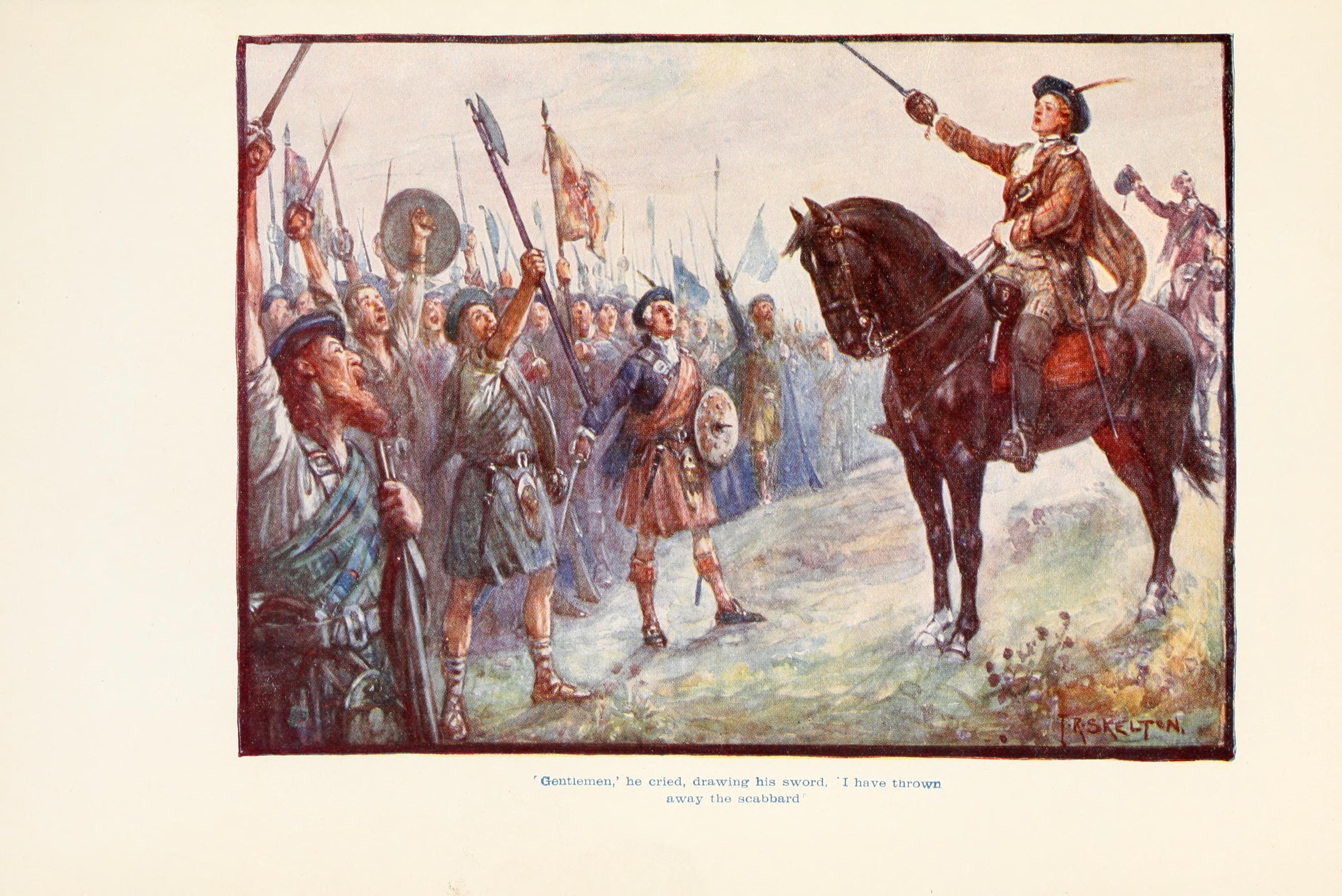 Scotland's story : a history of Scotland for boys and girls by Marshall, H. E. (Henrietta Elizabeth), b. 1876 Published 1907 SHOW MORE List of Kings from Duncan I.: p. 419-421 Publisher London : T.C. & E.C. Jack Pages 496 Possible copyright status NOT_IN_COPYRIGHT Language English Digitizing sponsor MSN Book contributor New York Public Library Collection newyorkpubliclibrary; americana Full catalog record MARCXML [Open Library icon]This book has an editable web page on Open Library.